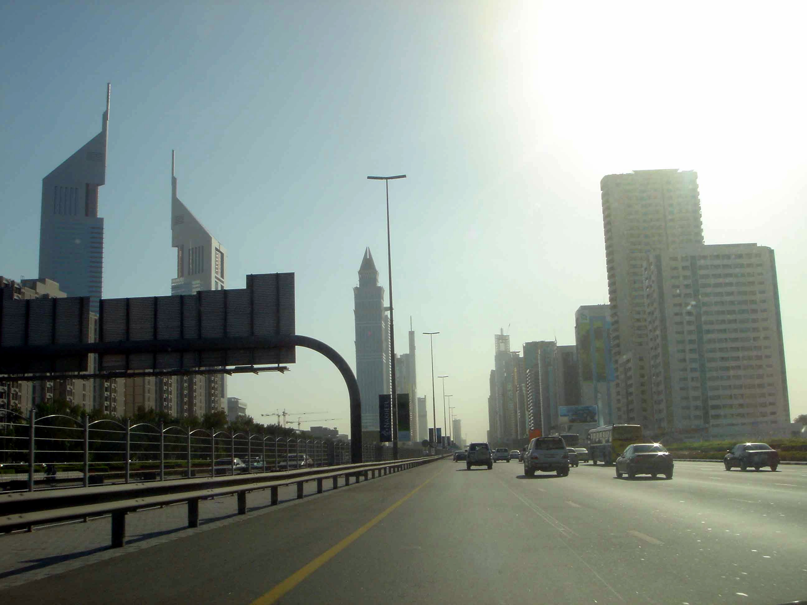 i love that street...full of skyscrapers